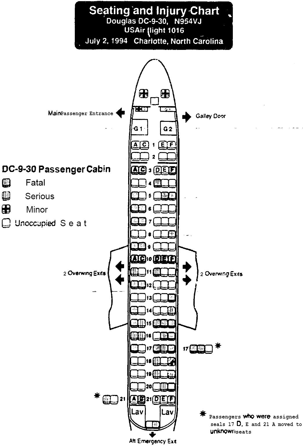 Seating chart of USAir Flight 1016 from an NTSB report: - Page 47 of 194